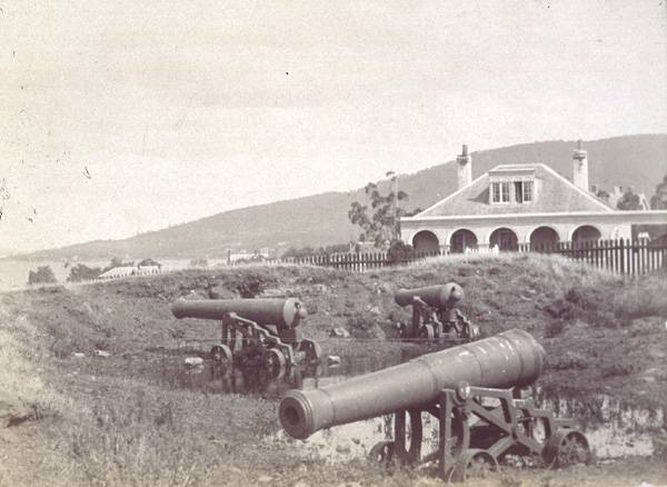 Battery Point, Hobart, Tasmania